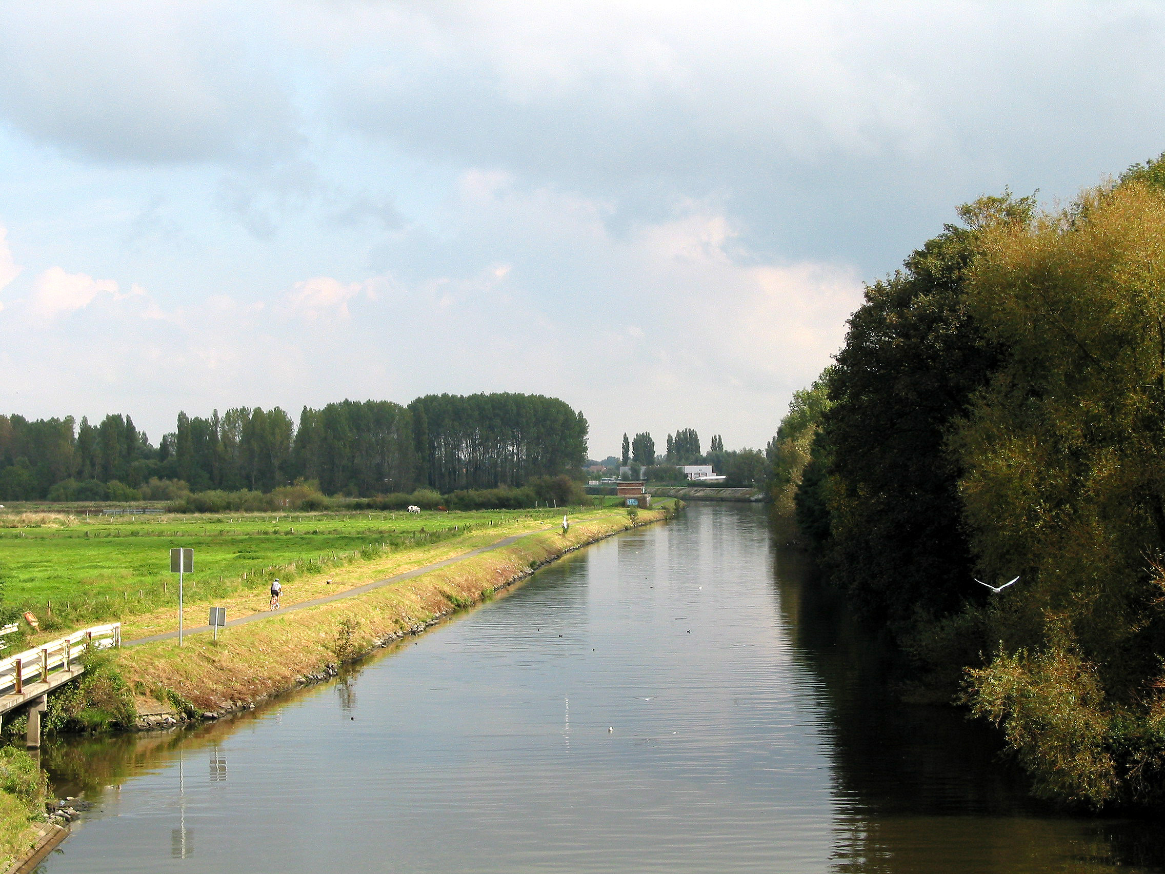 The Lys downstream of the bridge of Comines (Belgium) - Comines (France).